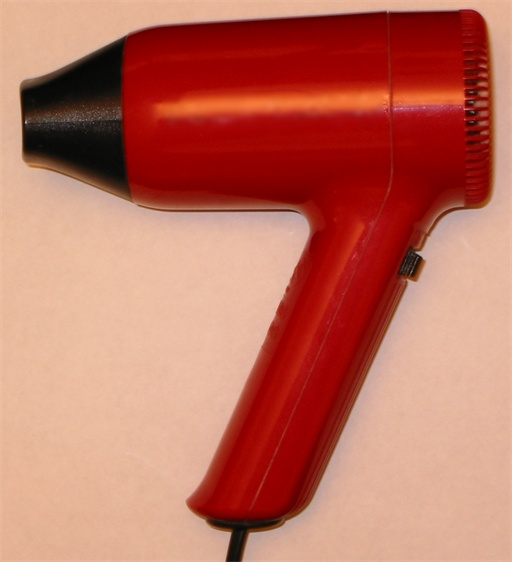 Hair dryer